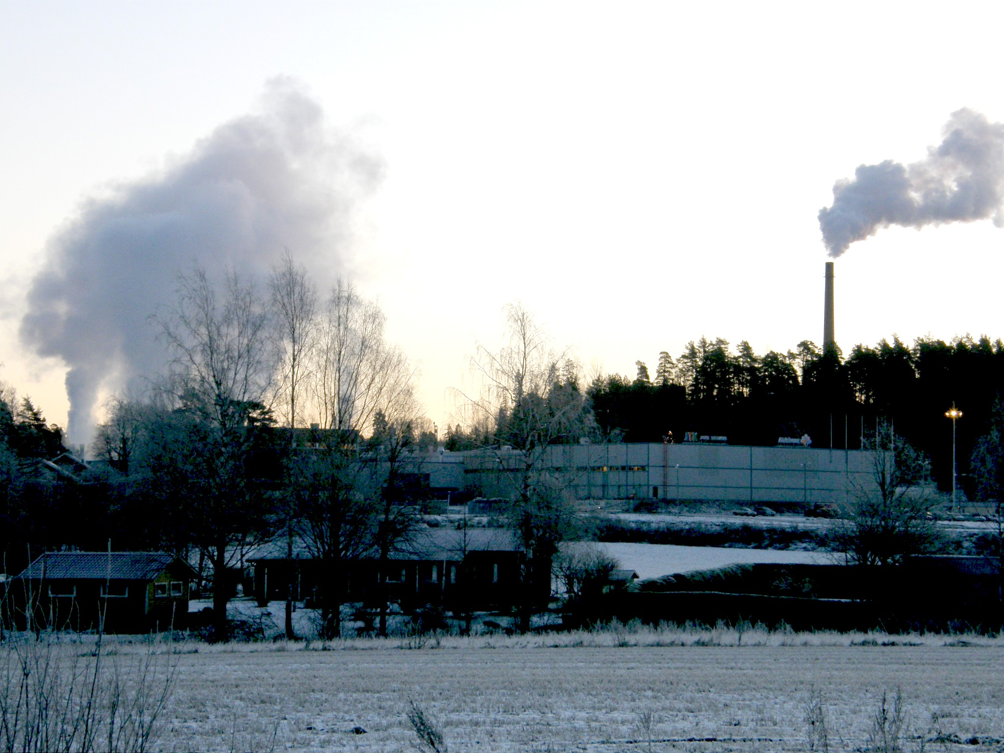 Kauttua Papermill Eura Finland